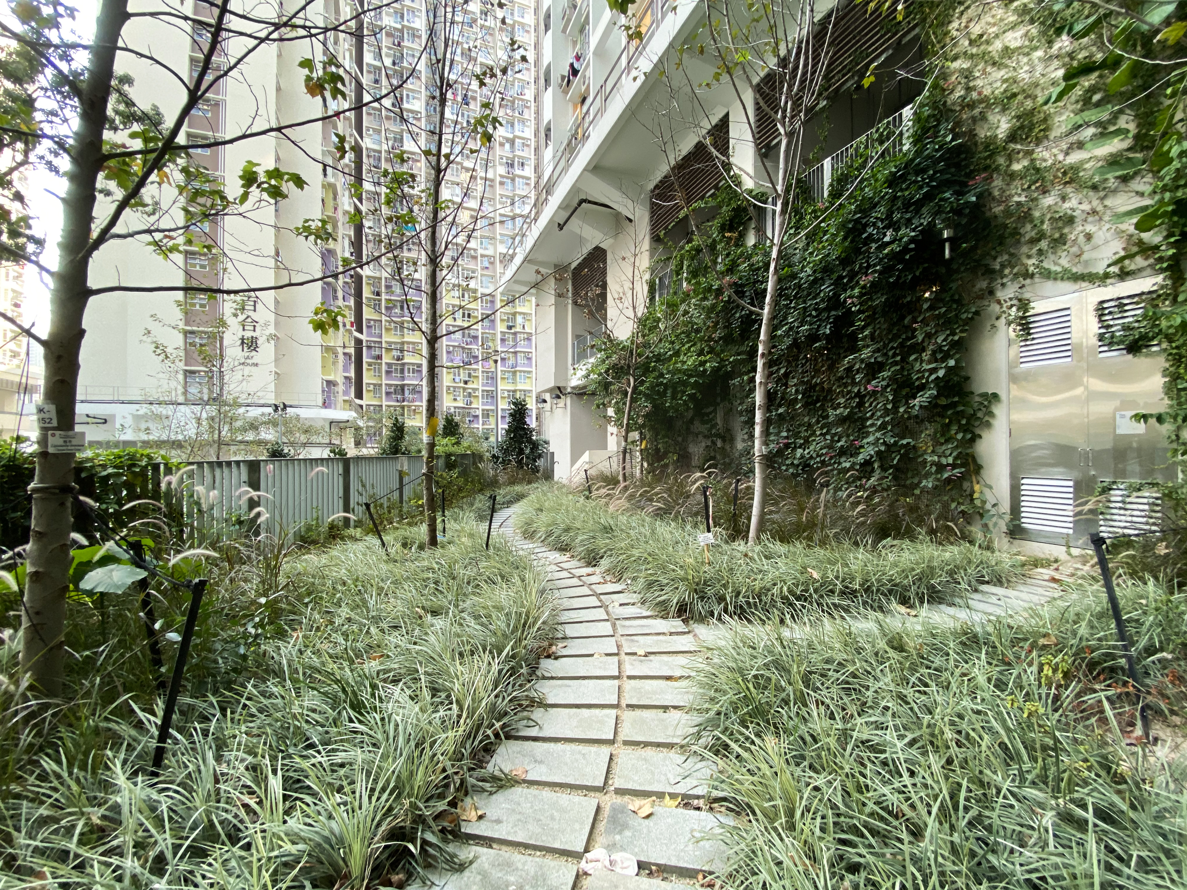 So Uk Estate Cherry House greenery area